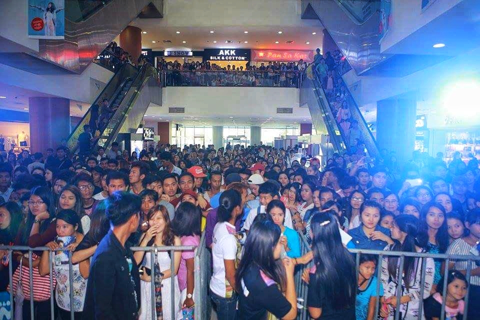 Warso Moe Oo is a actress and singer from Myanmar.